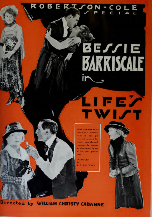 Advertisement with Bessie Barriscale for the film Life's Twist (1920), directed by William Christy Cabanne.